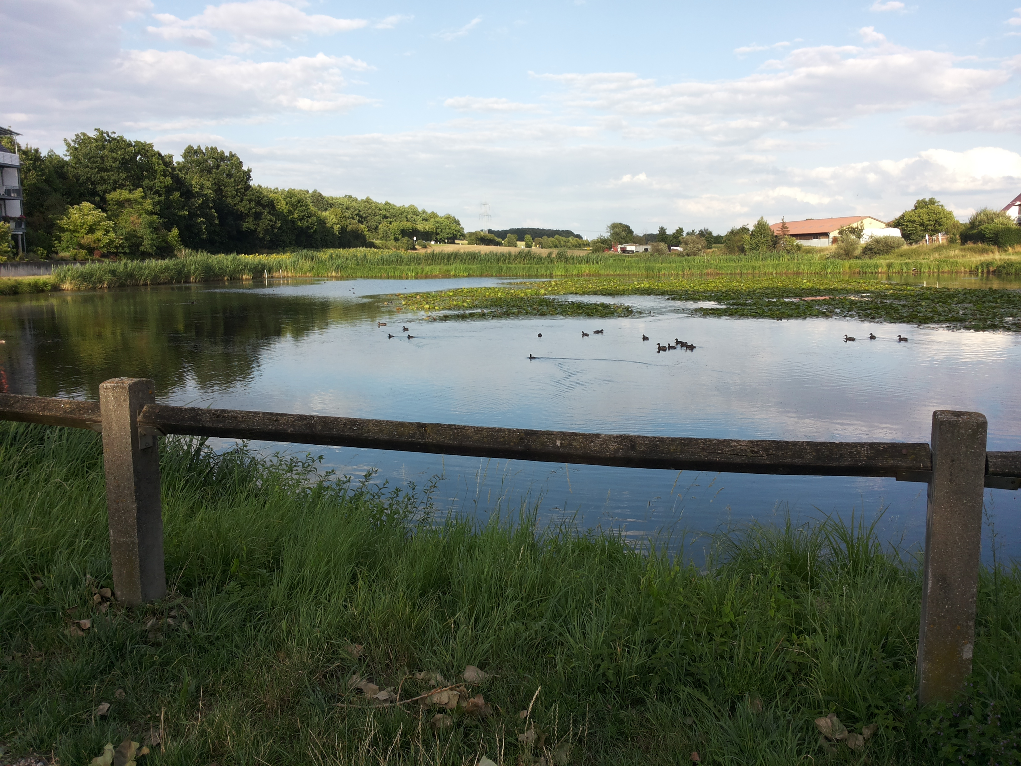 Horbacher_Weiher_Germany; Horbach (Langenzenn); 90579